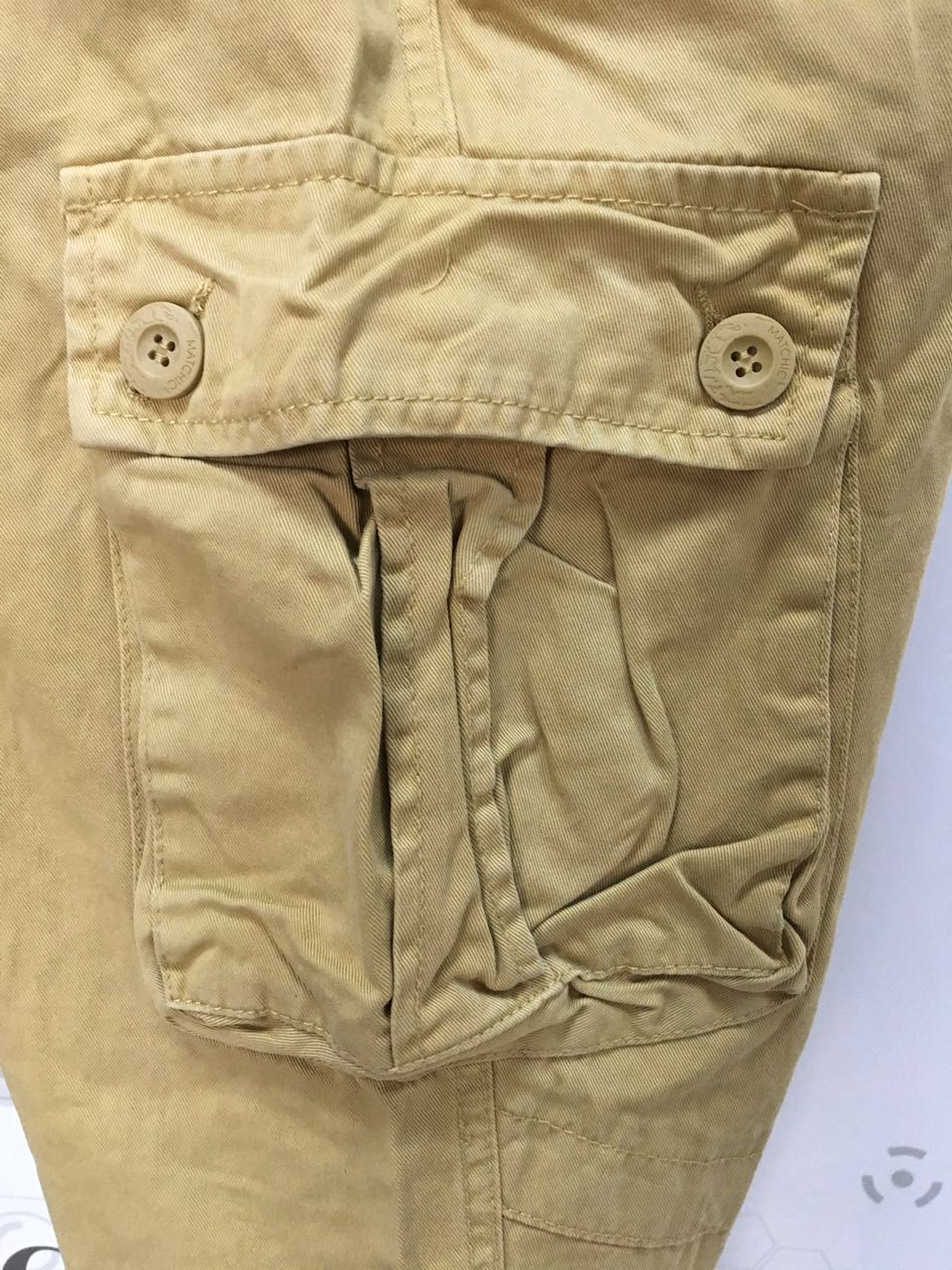 Khaki Cargo Pants